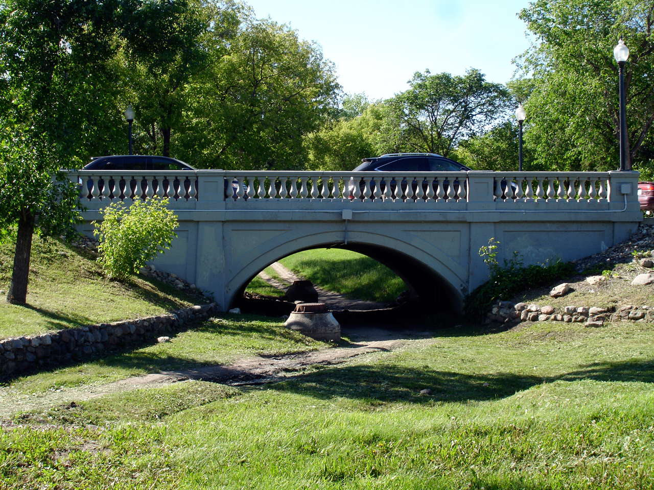 Spadina Crescent Bridge, a single arch, closed-spandrel deck bridge. It was built in 1930 and is located in the City Park neighbourhood.